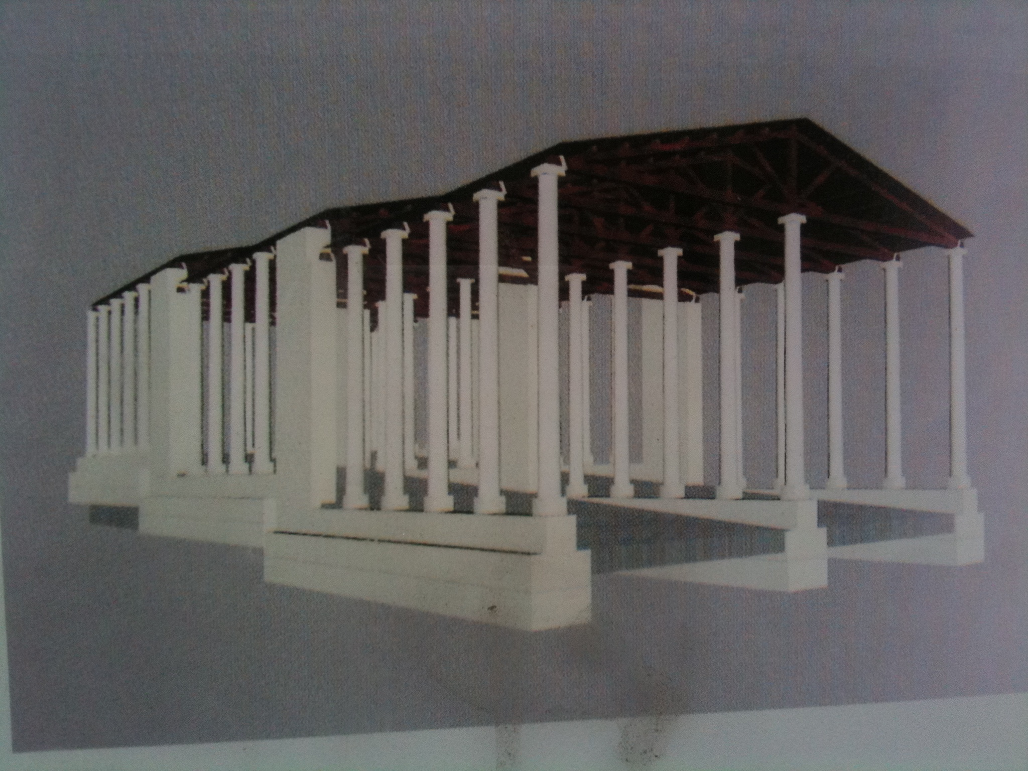 Reconstruction of the arsenal ship greek